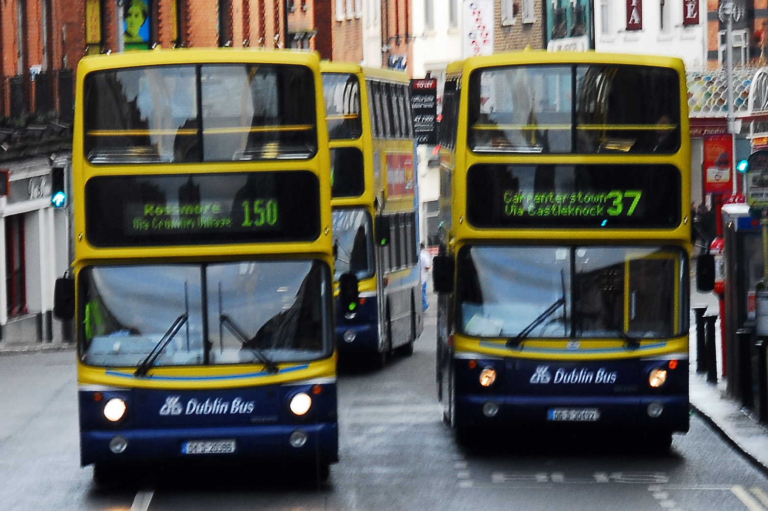 Two Dublin Bus Alexander Dennis buses in Dublin, Ireland. Both are Volvo B7TL.